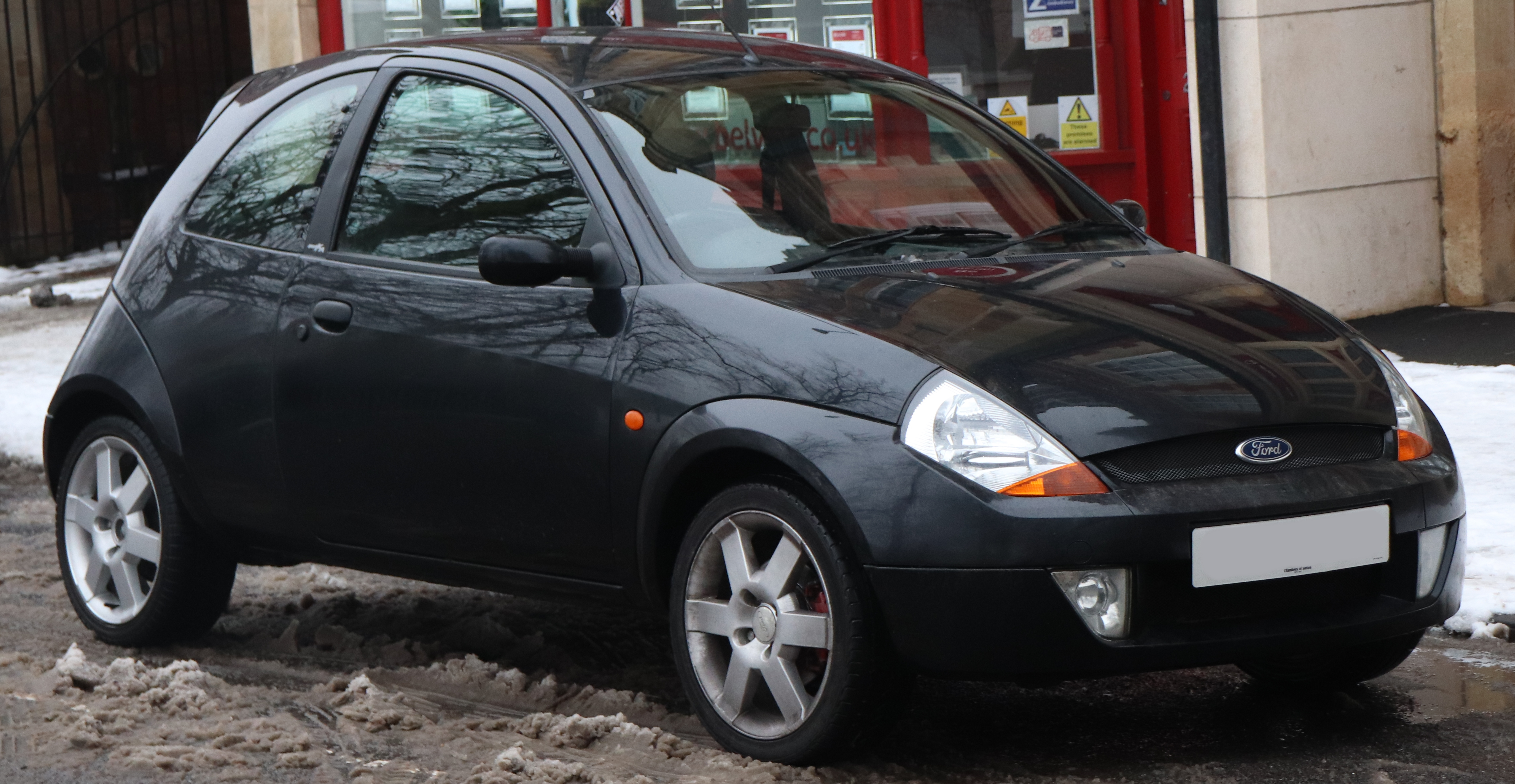 2006 Ford SportKa SE 1.6 Front Taken in Leamington Spa